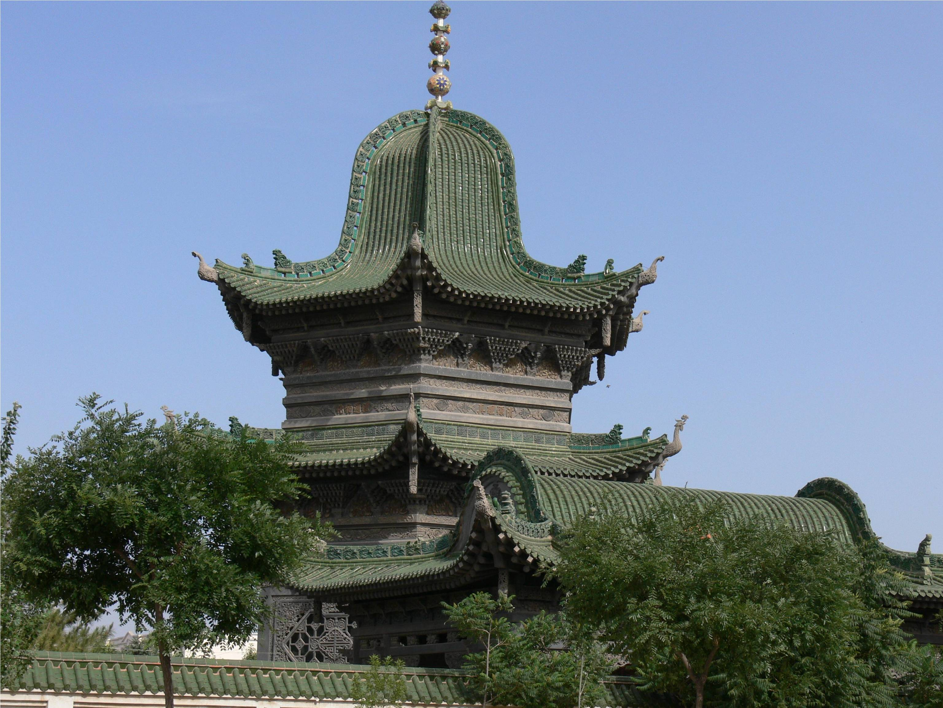 Siqiliangzi Gongbei (mausoleum of Ma Hualong) in Wuzhong City. Side view.